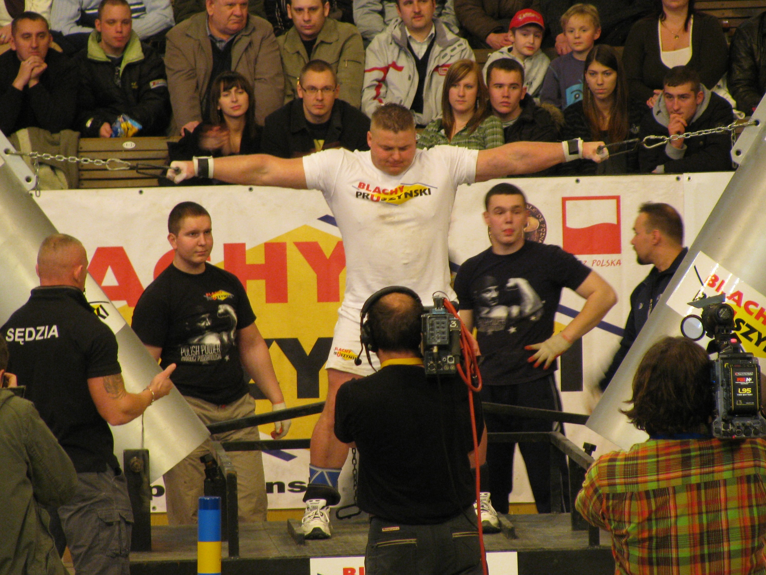 Slawomir Toczek - a strength athlete from Poland at Hercules Hold.